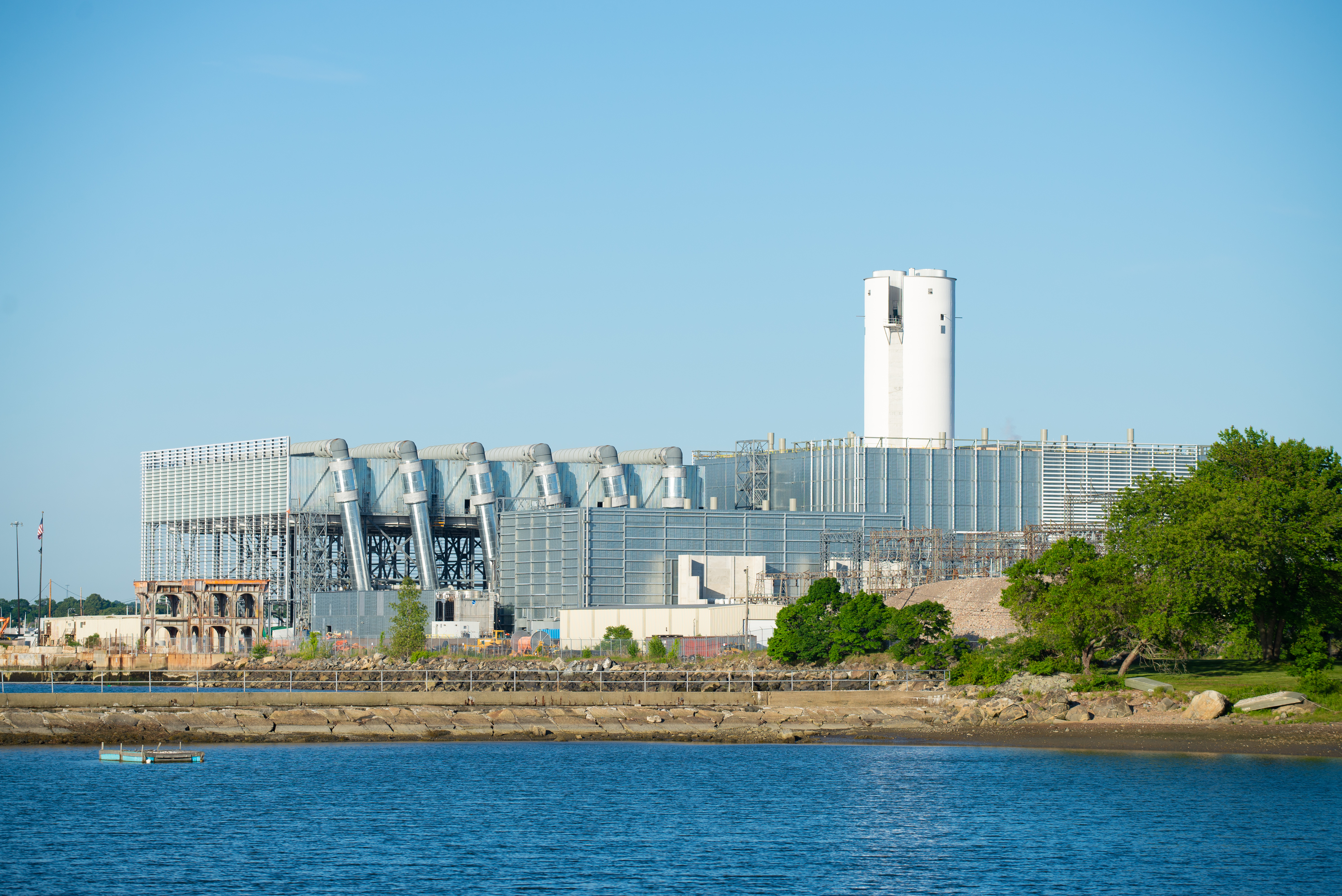 Completed 674 MW natural gas powerplant in Salem, Massachusetts built by Footprint Power. Replaced a coal plant that had been there for decades.